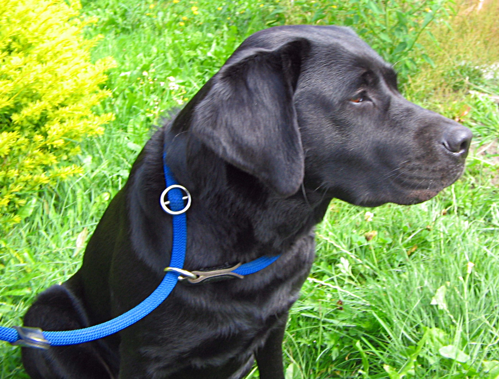 Labrador retriever with sliplead